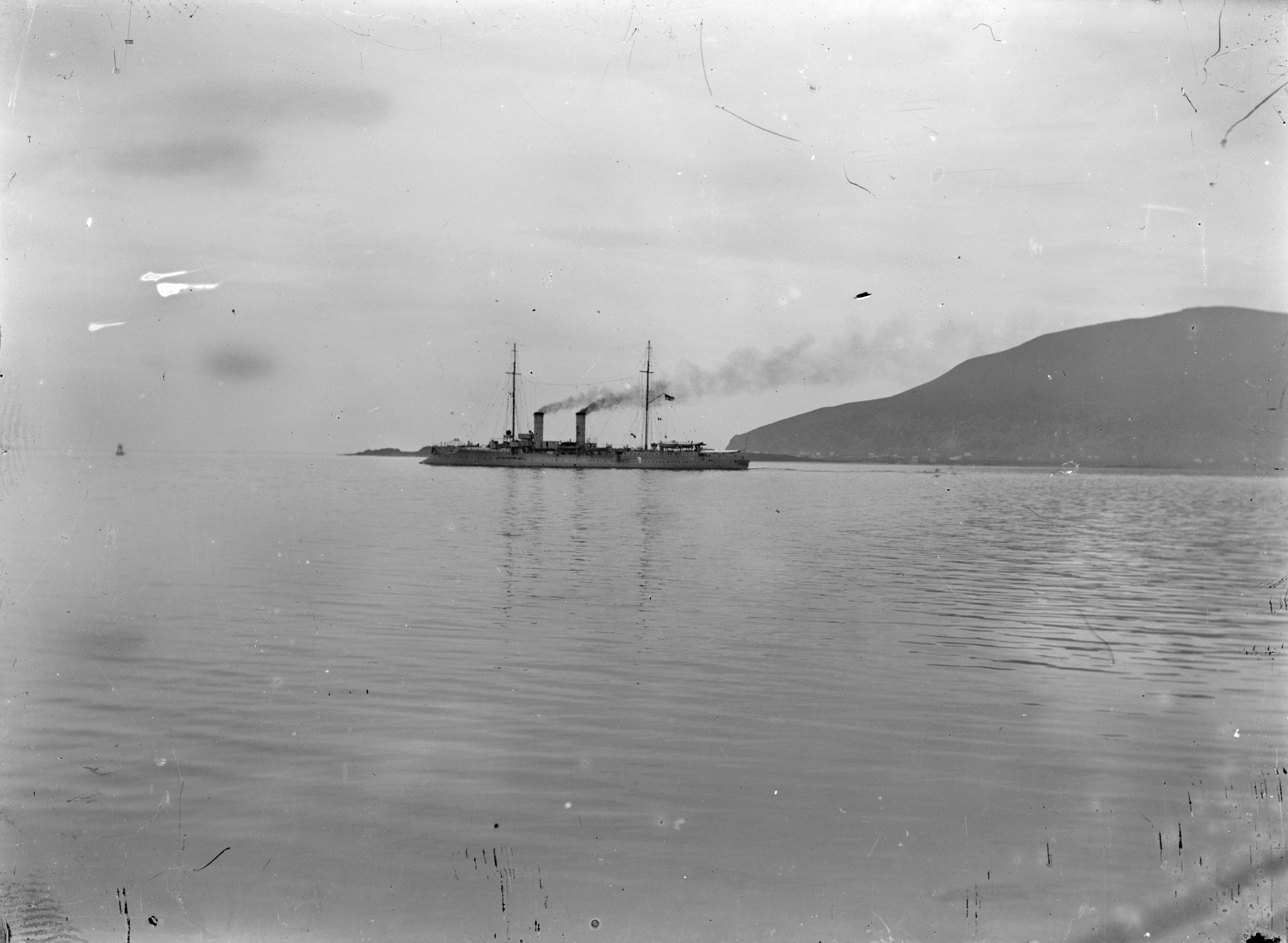 The German aviso SMS Hela passing Grønningen lighthouse, Kristiansand SFFf-1988007.0036 Photographer: Anders Folkestadås (1865-1914) Date: ca 1900-1910. Medium: Glassplate negative Extent: 8 x 11 cm